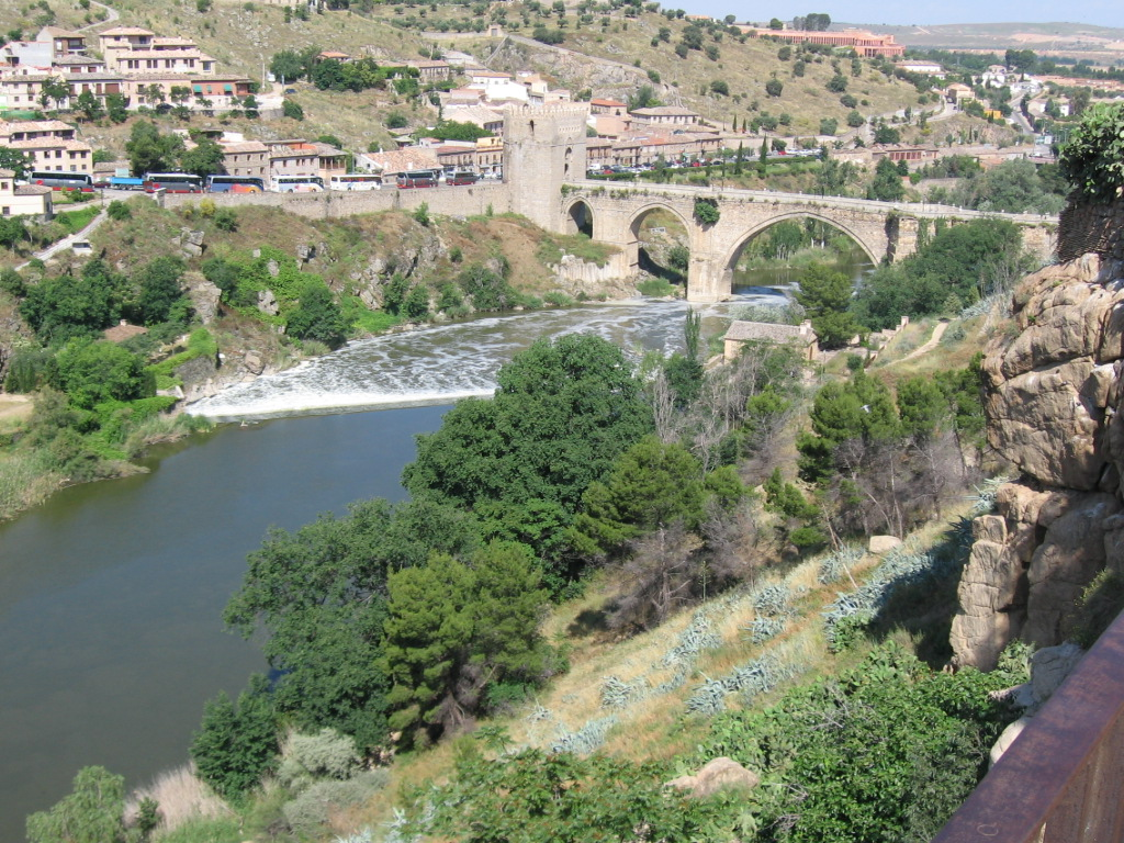 Toledo-River Tajo